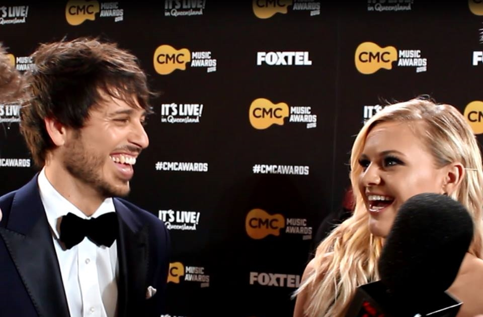 Morgan Evans and Kelsea Ballerini being interviewed by Australian radio presenters just before their romance went public.